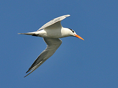 Royal Tern Havana - Cuba 23-nov-2004 Photo by Anne van der Wal